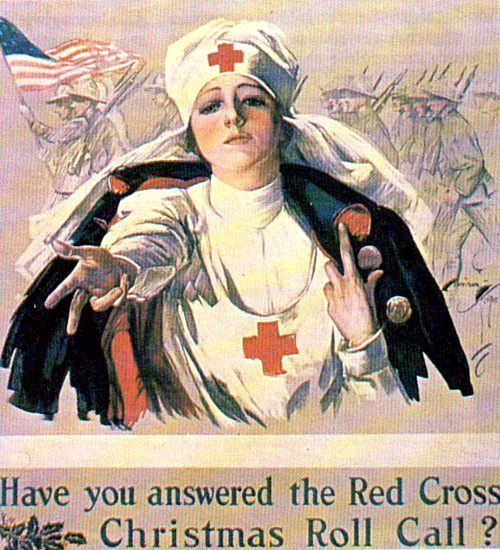 American Poster of Worla War I